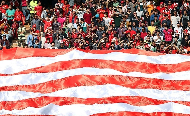 Persepolis fans during Tehran derby